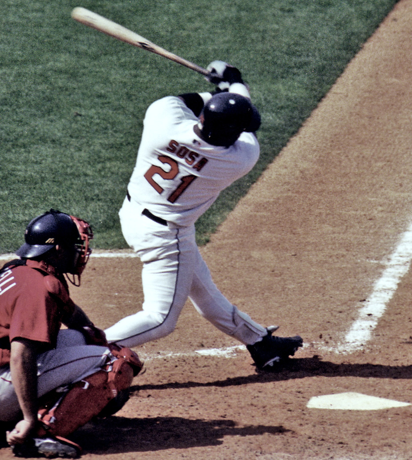 Sammy Sosa takes one of his famous might swings, Spring Training 2005. 17:05, 2 June 2005 . . Googie man . . 836×934 (398 KB)